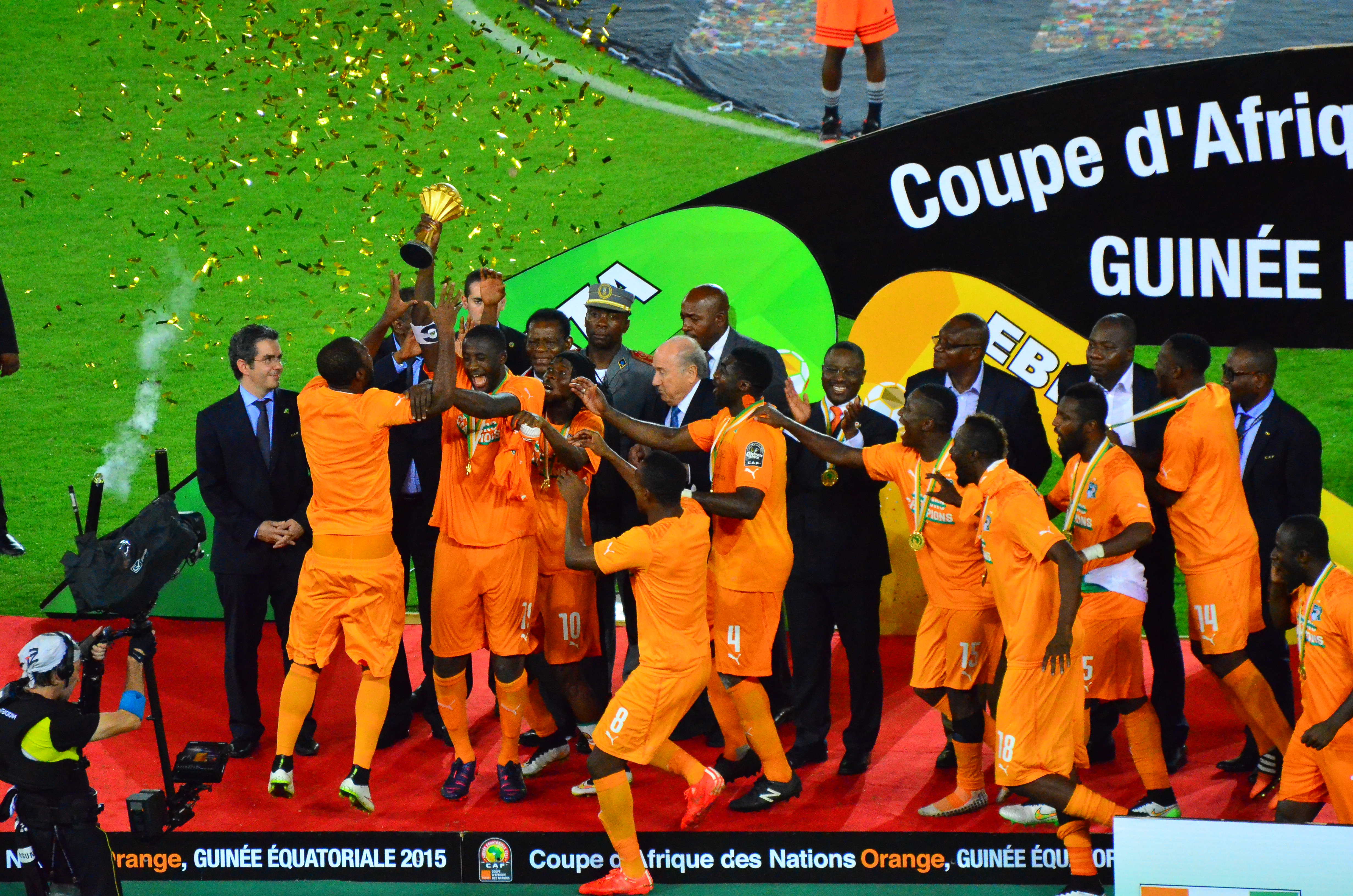 This is a picture of a soccer game (name of it is on file name).